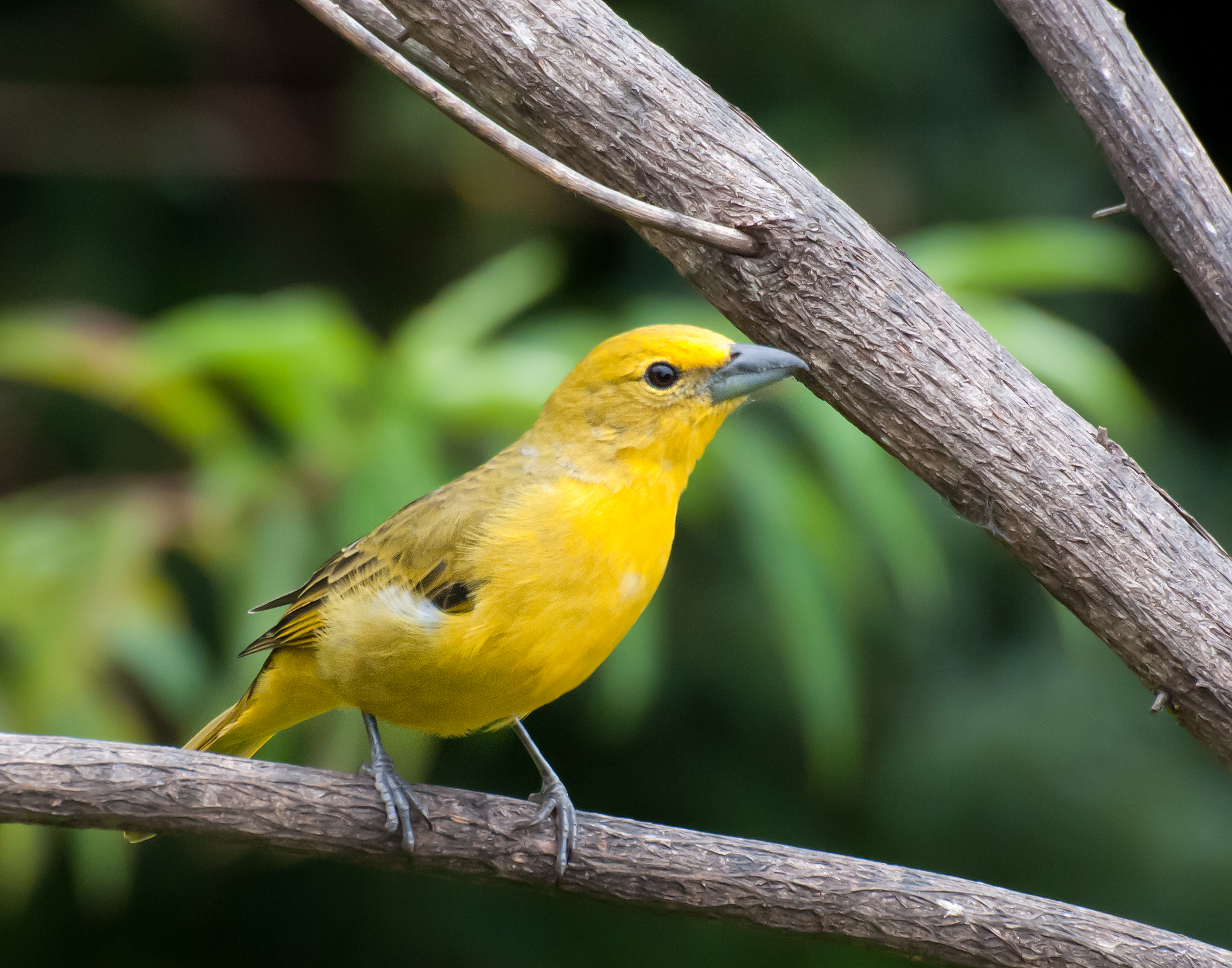 A female Red Tanager Piranga flava saira in Campos do Jordão, São Paulo, Brazil.